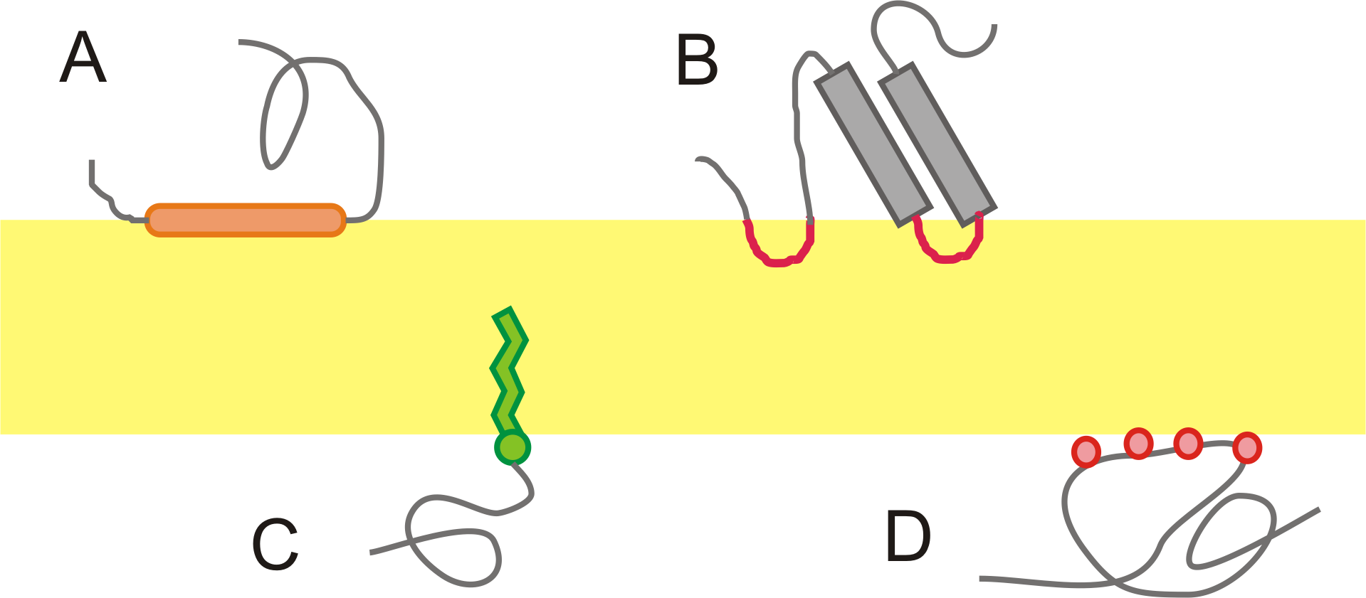 Schematic representation of peripheral membrane proteins, similar to Image:Monotopic membrane protein.png but without english annotations